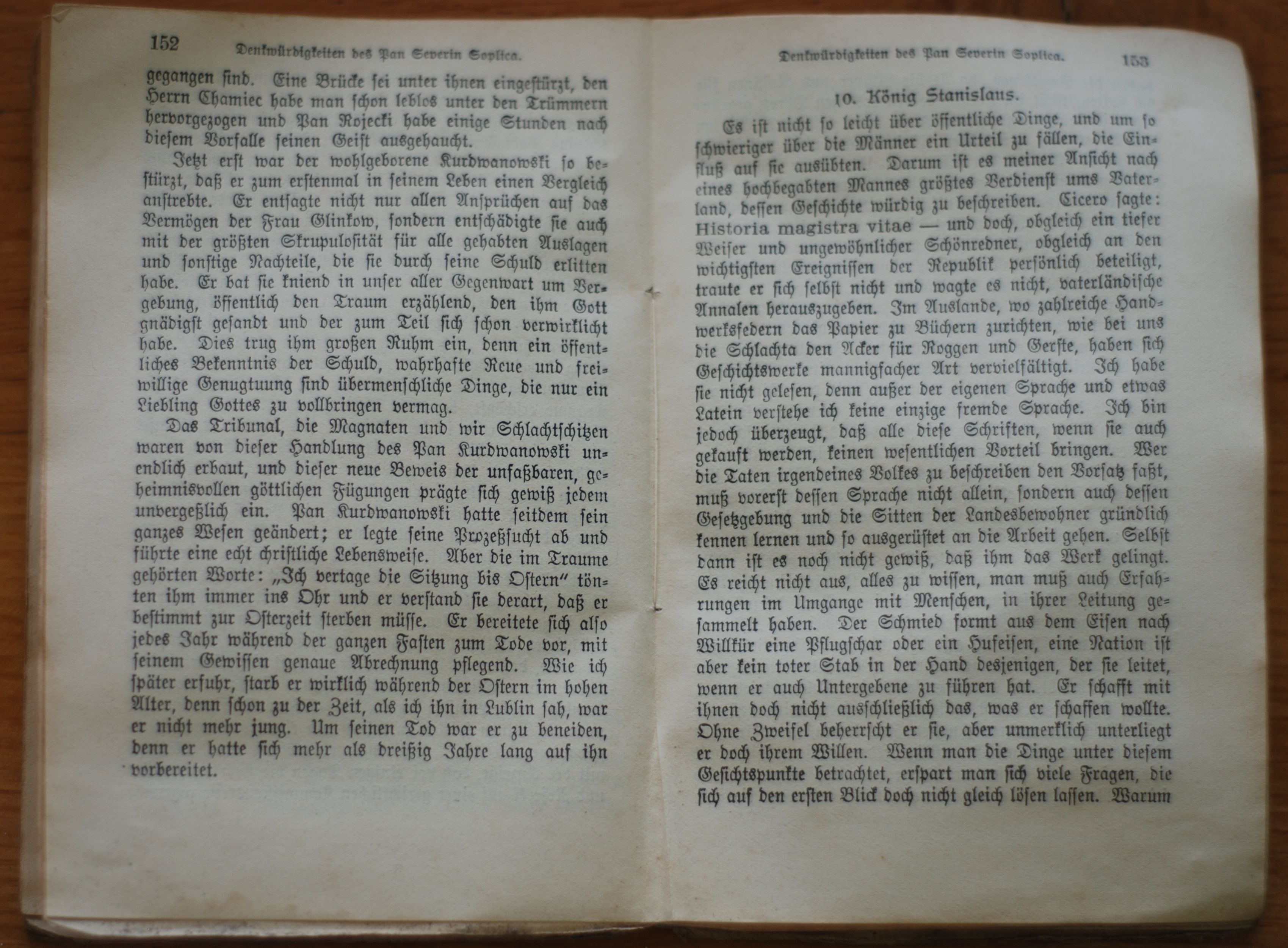 "Pamiątki JPana Seweryna Soplicy" by polish writer Henryk Rzewuski (ger. "Denkwürdigkeiten des Pan Severin Soplica", eng. "Memories of Pan Severin Soplica"), edition in german, Leipzig, 1876, translation by Philipp Löbenstein.